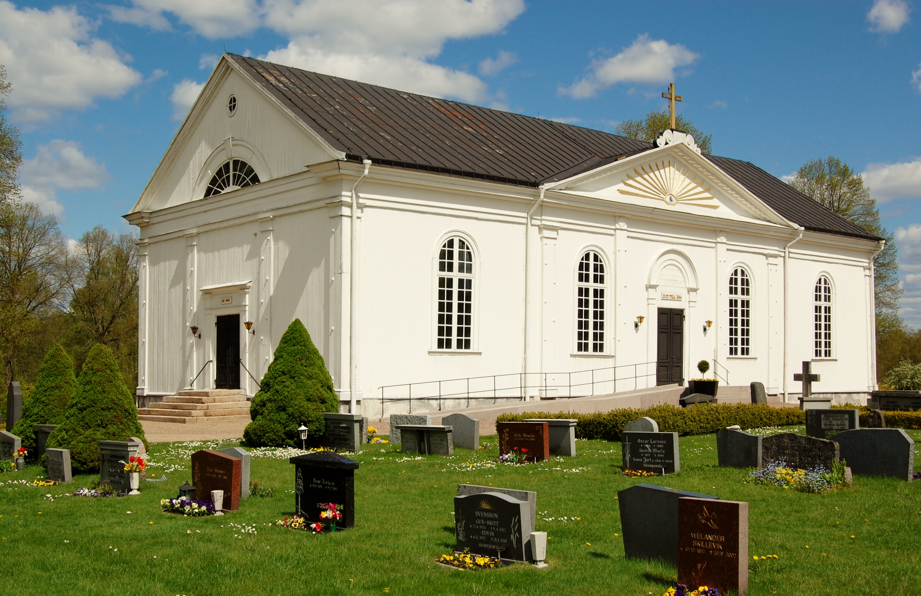 Eringsboda church from the southwest